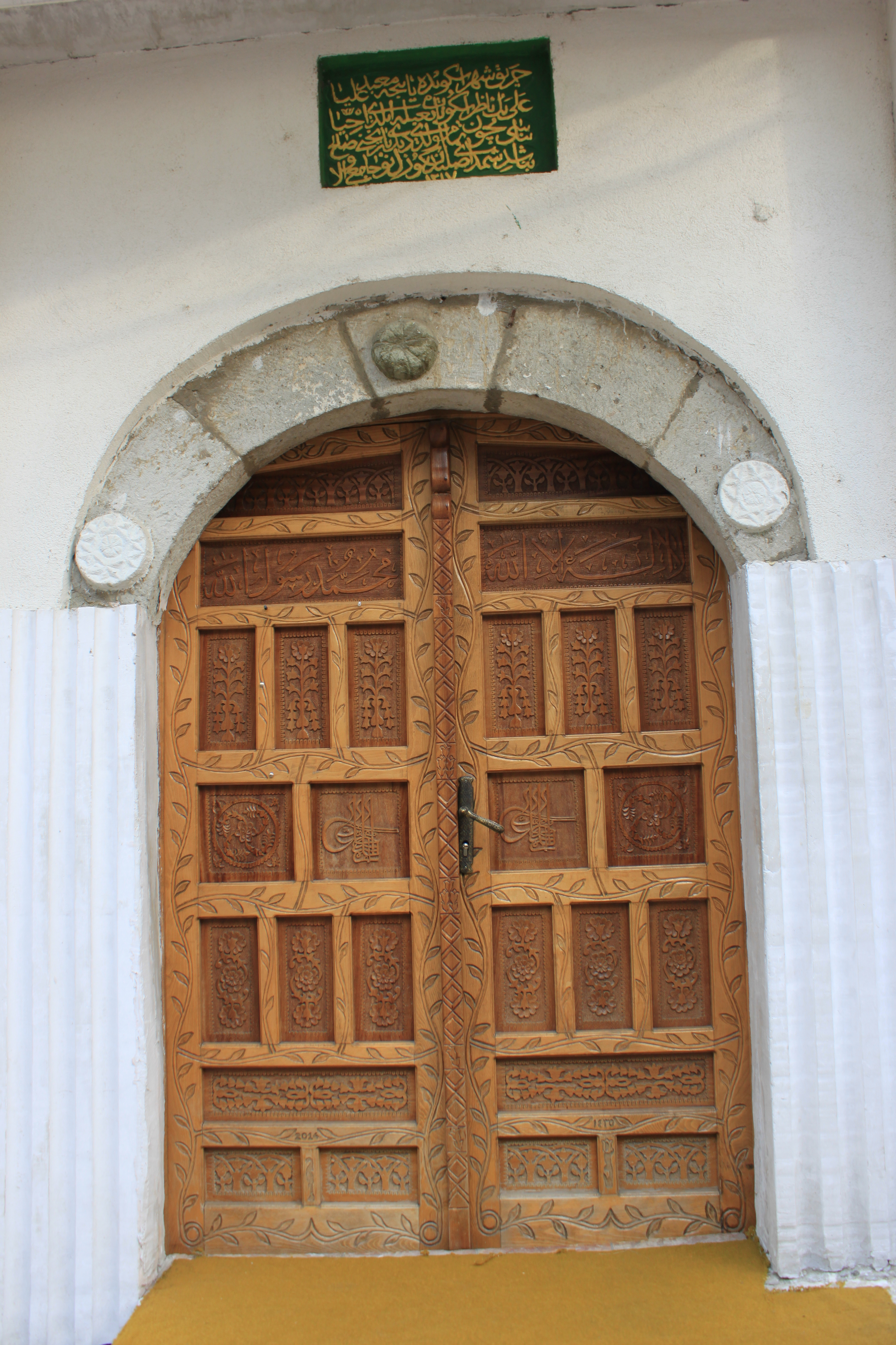 Door of Sultan Murad (Murat Pasha) Mosque, Skopje, Macedonia